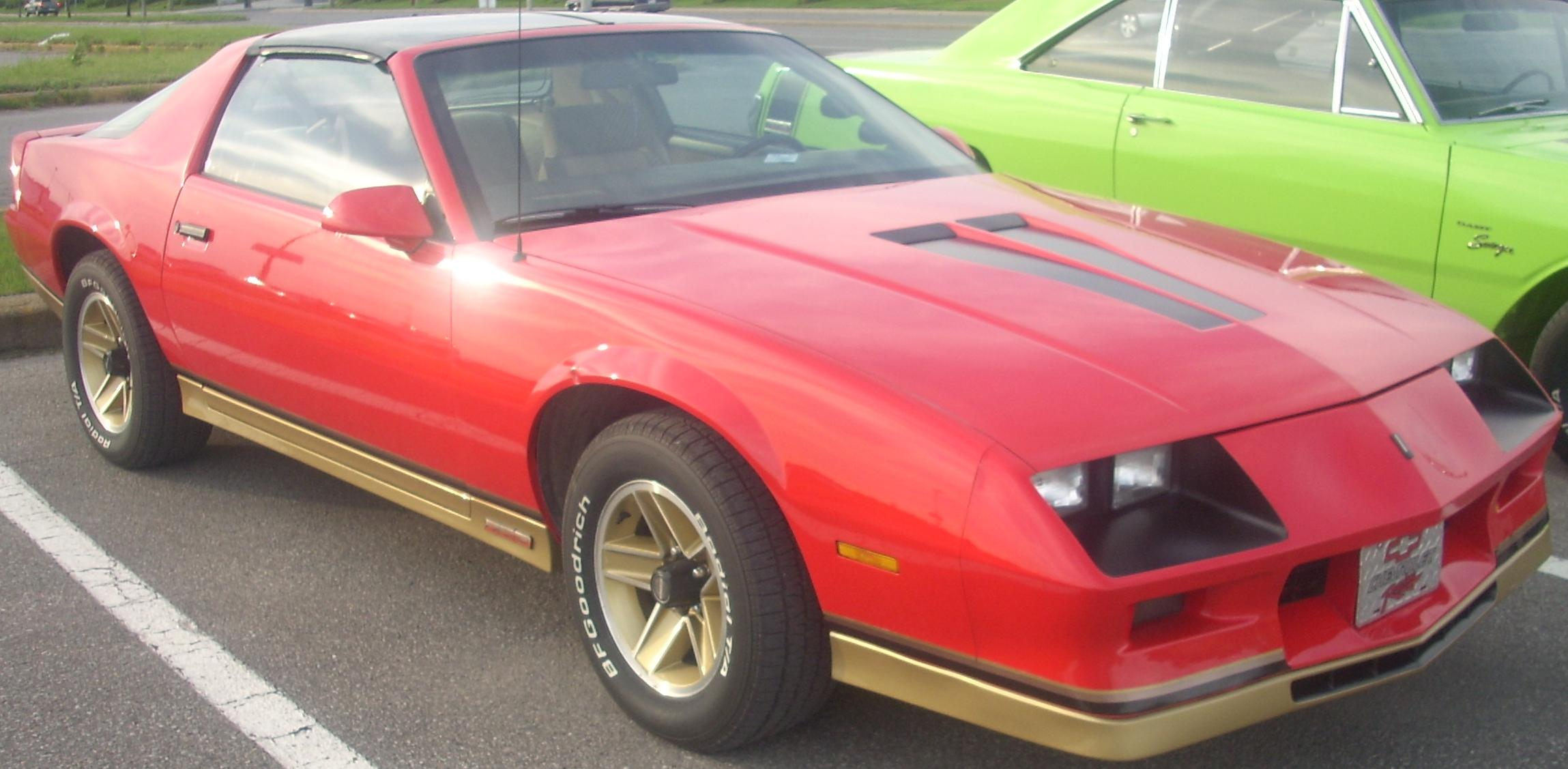 Chevrolet Camaro photographed in Laval, Quebec, Canada at Les chauds vendredis 2010.